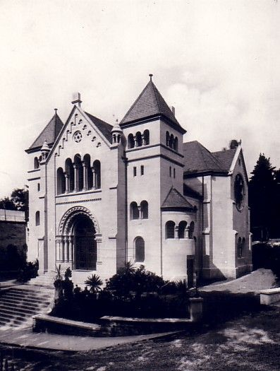 Synagogue in Baden-Baden (Germany) destroyed in 1938 during the Kristallnacht